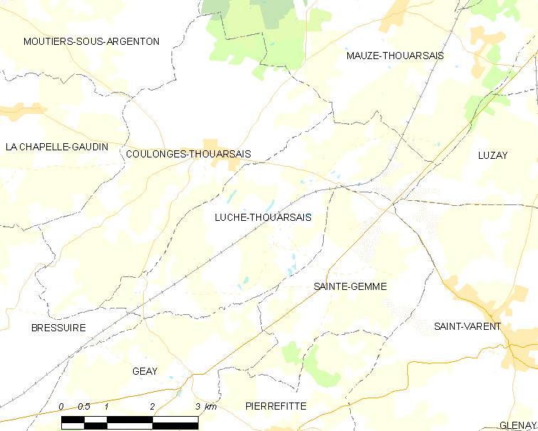 Map of French municipality Luché-Thouarsais